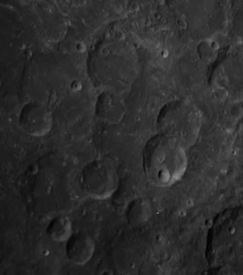 Oblique view of Dreyer and Ginzel and several of their satellite craters, on the far side of the moon. North is at top. From center, Ginzel is at approximately 12:00, and Dreyer is at approximately 8:00. Ginzel G and H are at 3:00 and 4:00. The small crater at 9:00 is Dreyer W. Dreyer C is just east of Dreyer, and Dreyer K and J are to the south and southeast of Dreyer. Ginzel L is due south of Ginzel.